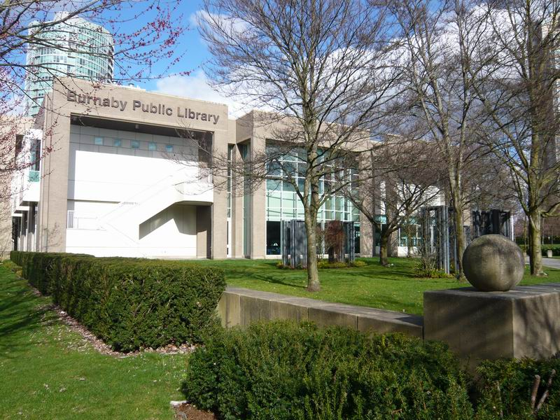 BbyLibrary